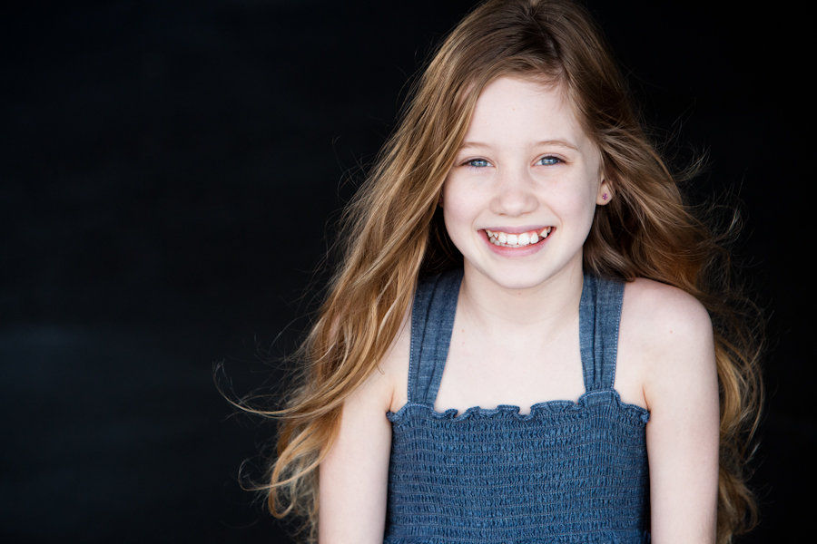 Ava Ames